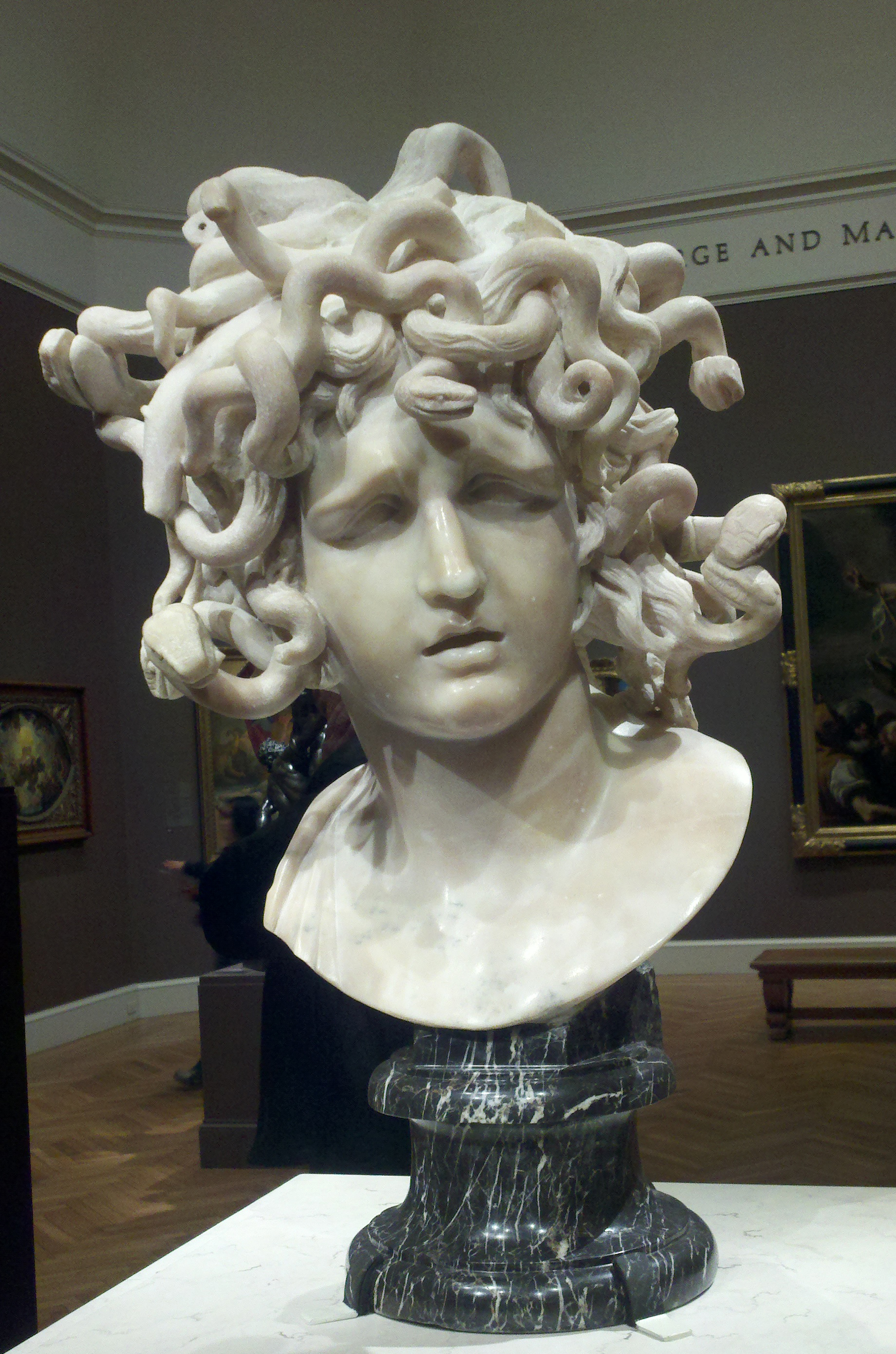 Medusa by Gian Lorenzo Bernini, Palace of Legion of Honor, San Francisco, California, USA